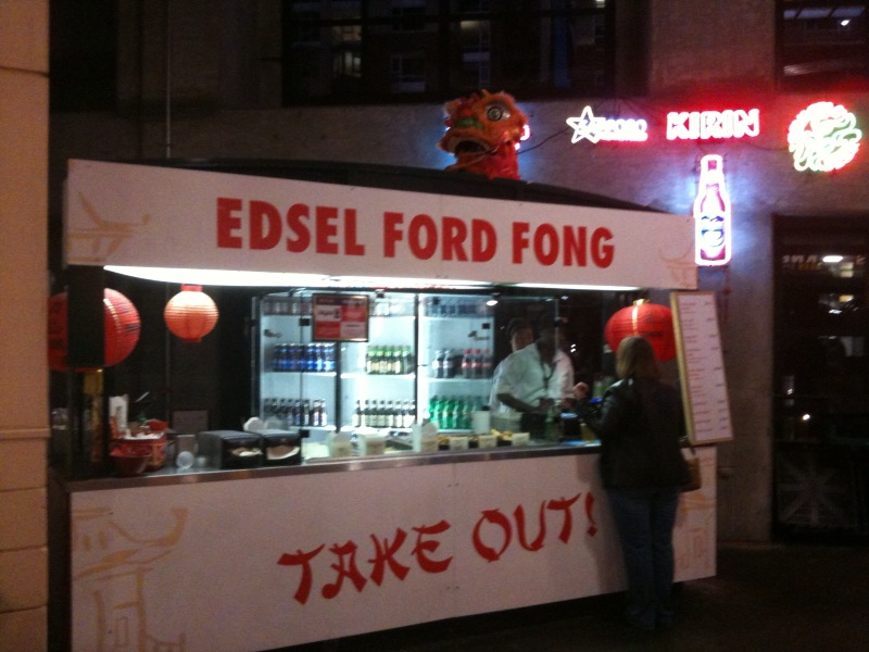 Edsel Ford Fung's, named after the "worst, rudest" waiter in the world and one of San Francisco's legendary characters, former head waiter of Sam Wo's in Chinatown. This take-out stand is behind home plate in the lower level of Giant's Stadium in San Francisco